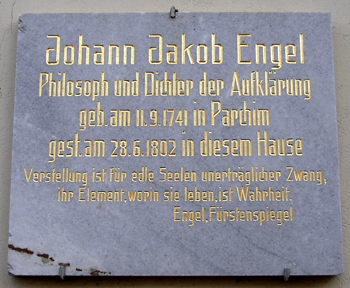 Memorial plaque for Johann Jacob Engel in Parchim in Mecklenburg-Western Pomerania, Germany